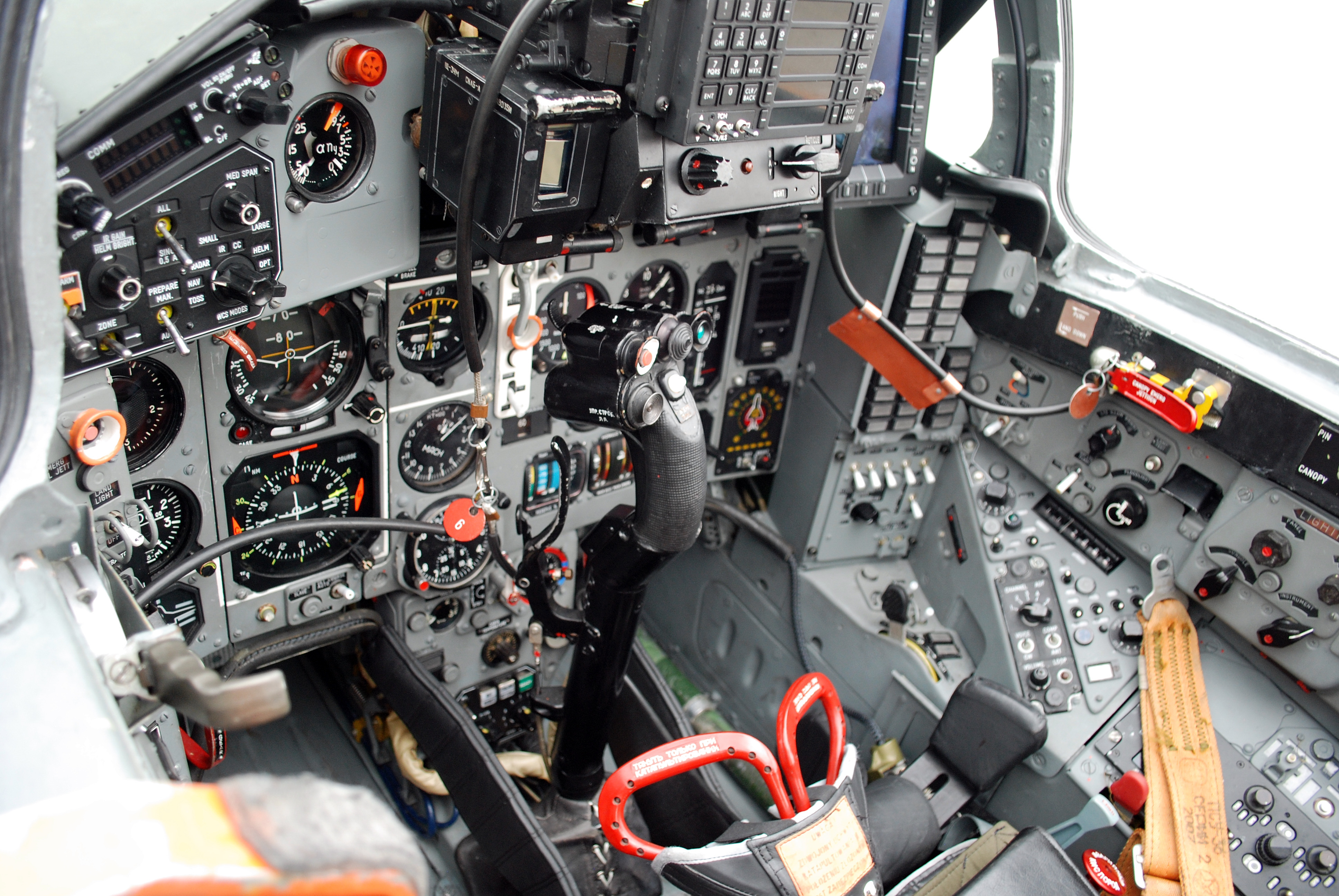 Control panel of Polish-modernized MiG-29, with multirole display on the right